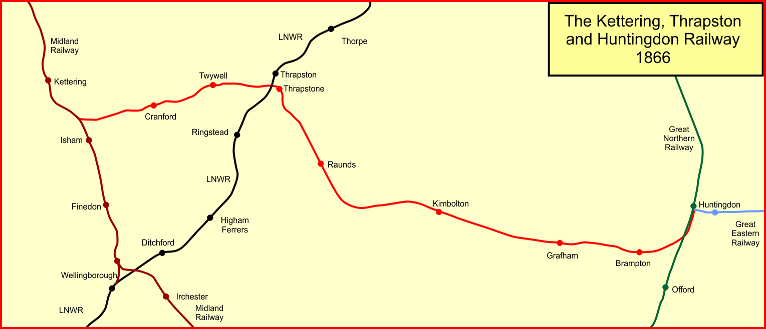 System map of the Kettering, Thrapston and Huntingdon Railway, England, in 1866